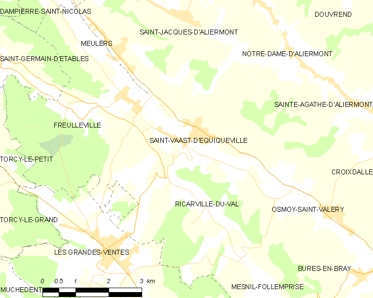 Map of French municipality Saint-Vaast-d'Équiqueville